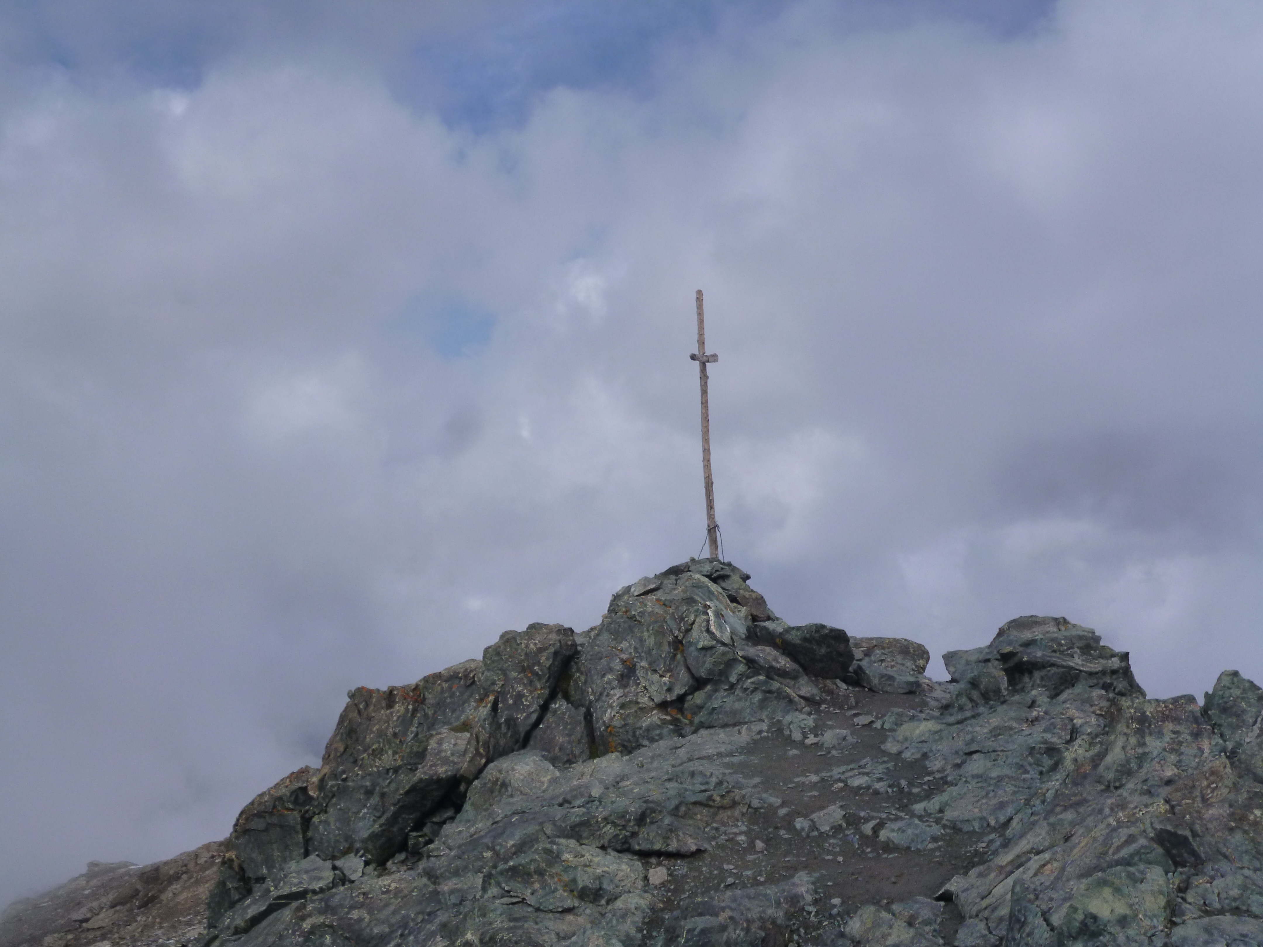 Cross on south summit of Monte Roisetta